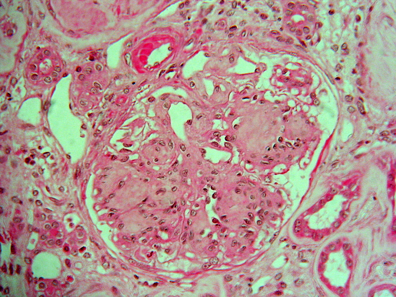 Light micrograph of a kidney showing nodular glomerulosclerosis in a case of diabetic nephropathy.